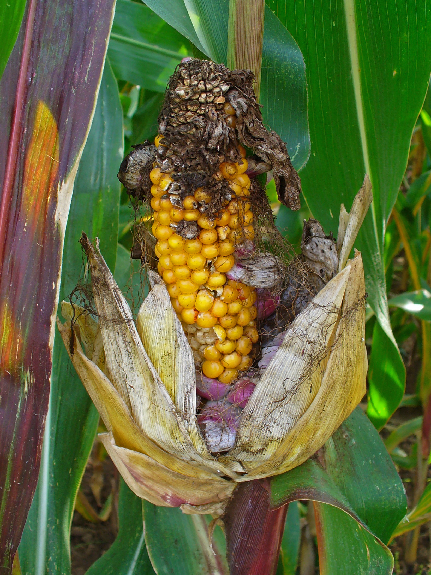 Ustilago maydis, Ustilaginaceae, Corn smut, galls. Karlsruhe, Germany.